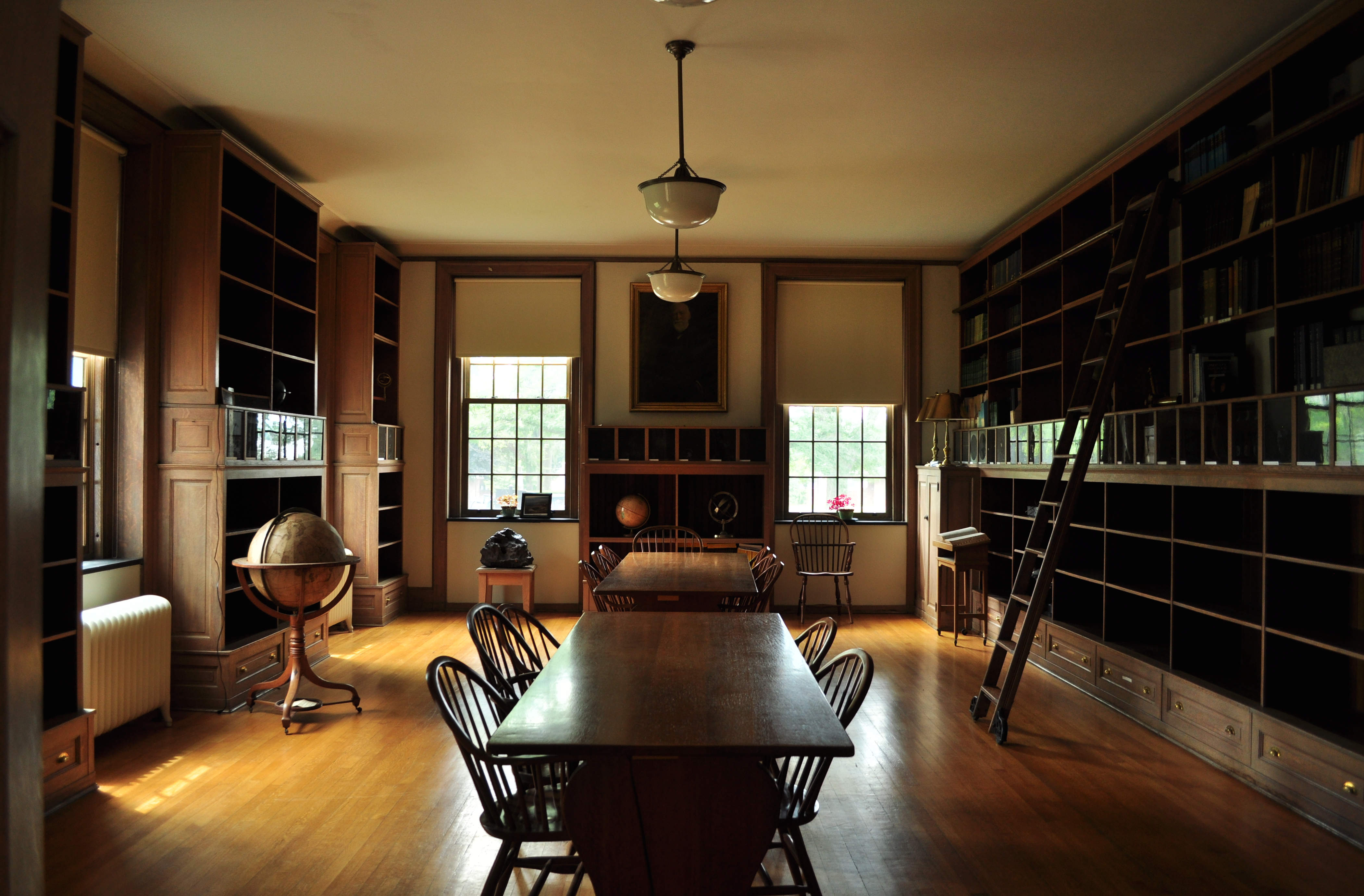 Library of Van Vleck Observatory, Wesleyan University, Middletown, Connecticut, USA.